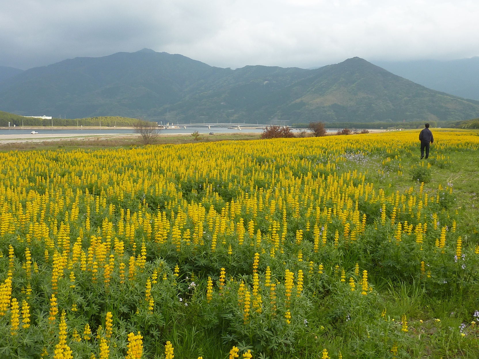 The Lupinus Garden at the Kashiwabaru Coast (Higashikushira Town, Kagoshima Prefecture, Japan)